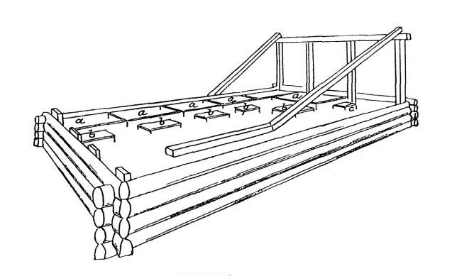 Sketch of Behouden Huys as it was first discovered by E. Carlsen in 1871 a: bunks b: chests c : iron chest